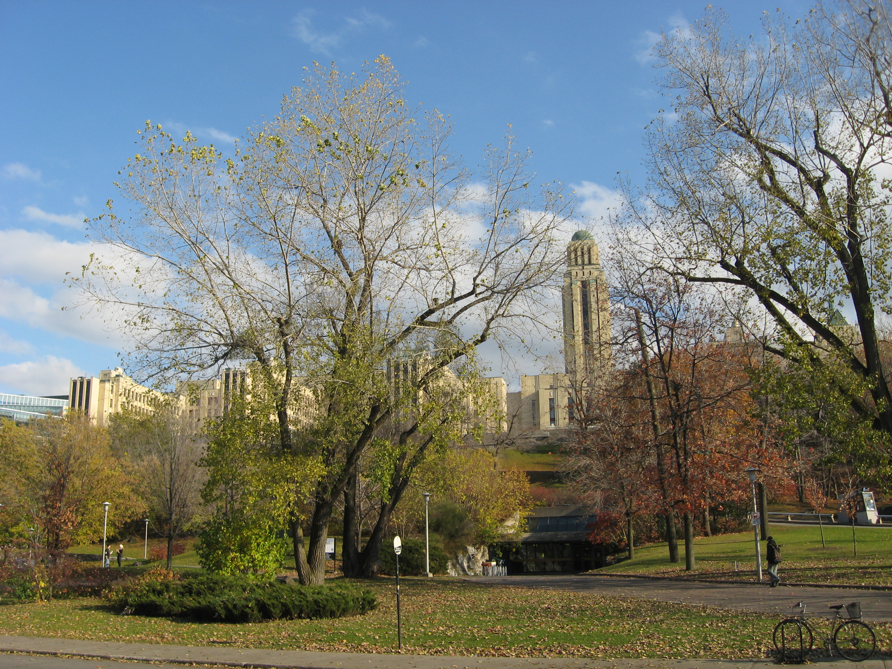 Roger-Gaudry pavilion and view on the entrance of the Université-de-Montréal subway station